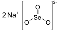 Sodium selenite